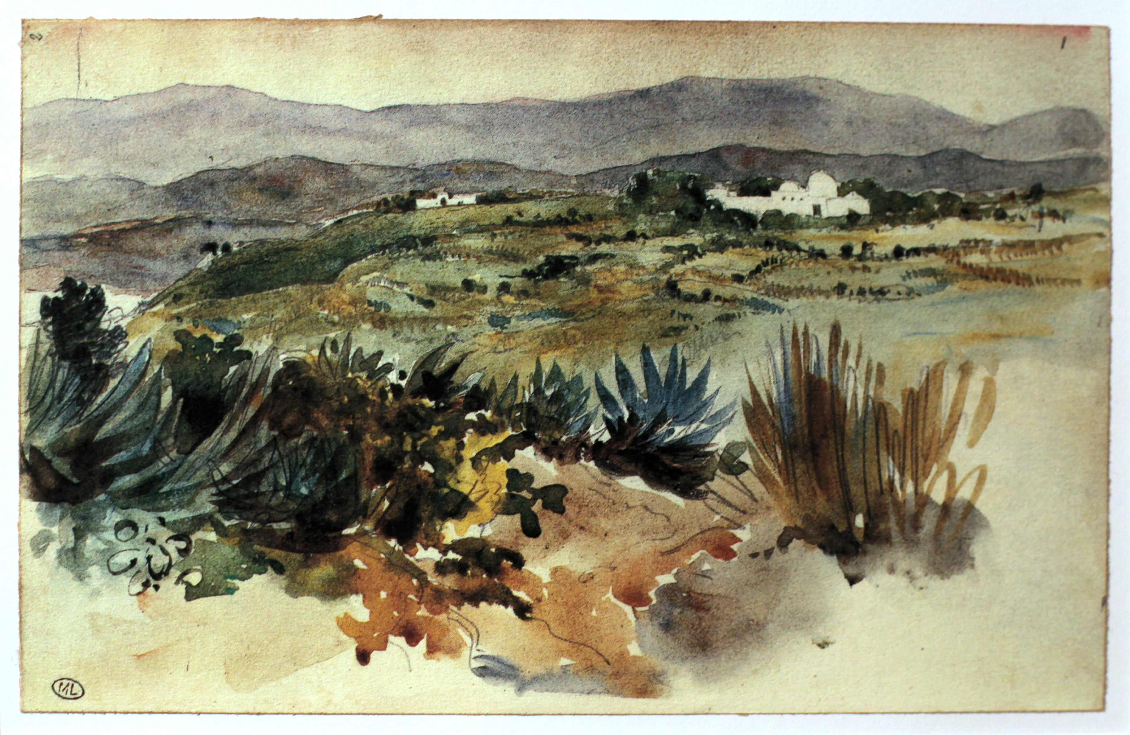 Sketchbook of Delacroix, notes from a journey to Morocco.